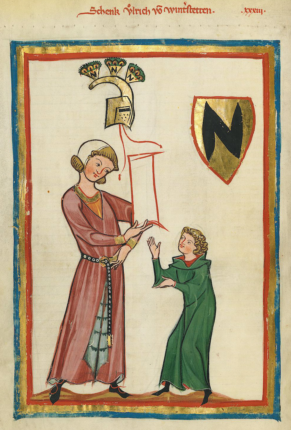 Codex Manesse, fol. 84v: Ulrich von Winterstetten (also known as Ulrich von Schmalegg-Winterstetten) in Zürich.